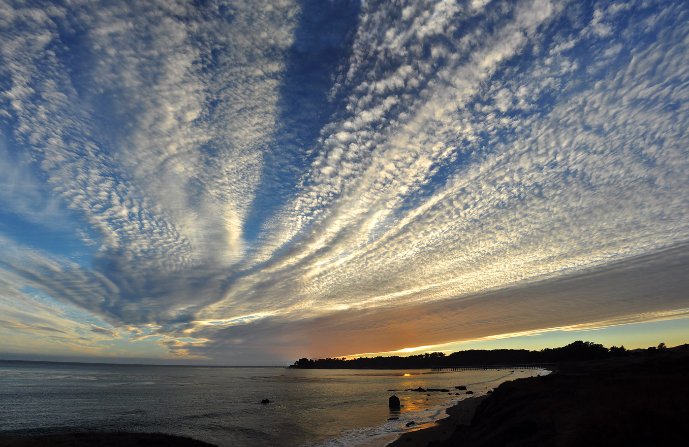 A spectacular sunset graces the pier and peninsula at San Simeon.